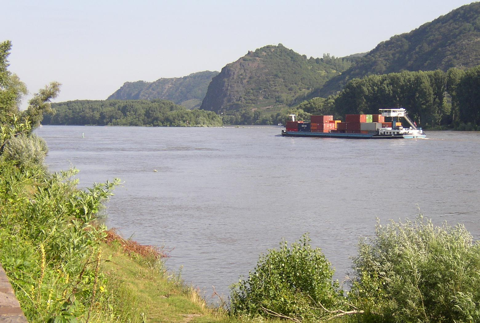 River Rhine in Andernach-Namedy in Rhineland-Palatinate, Germany